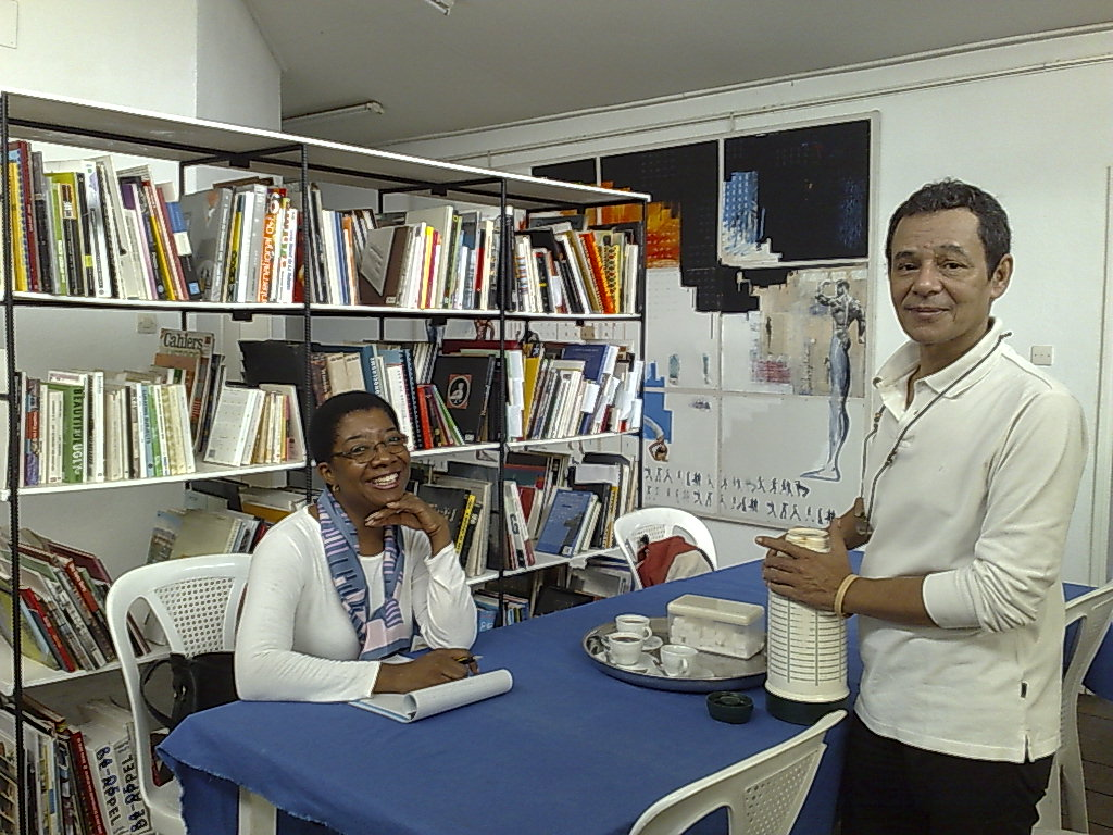 Ars&Urbis curatorial meeting 2009, Douala, January 2009. Photo by Iolanda Pensa.